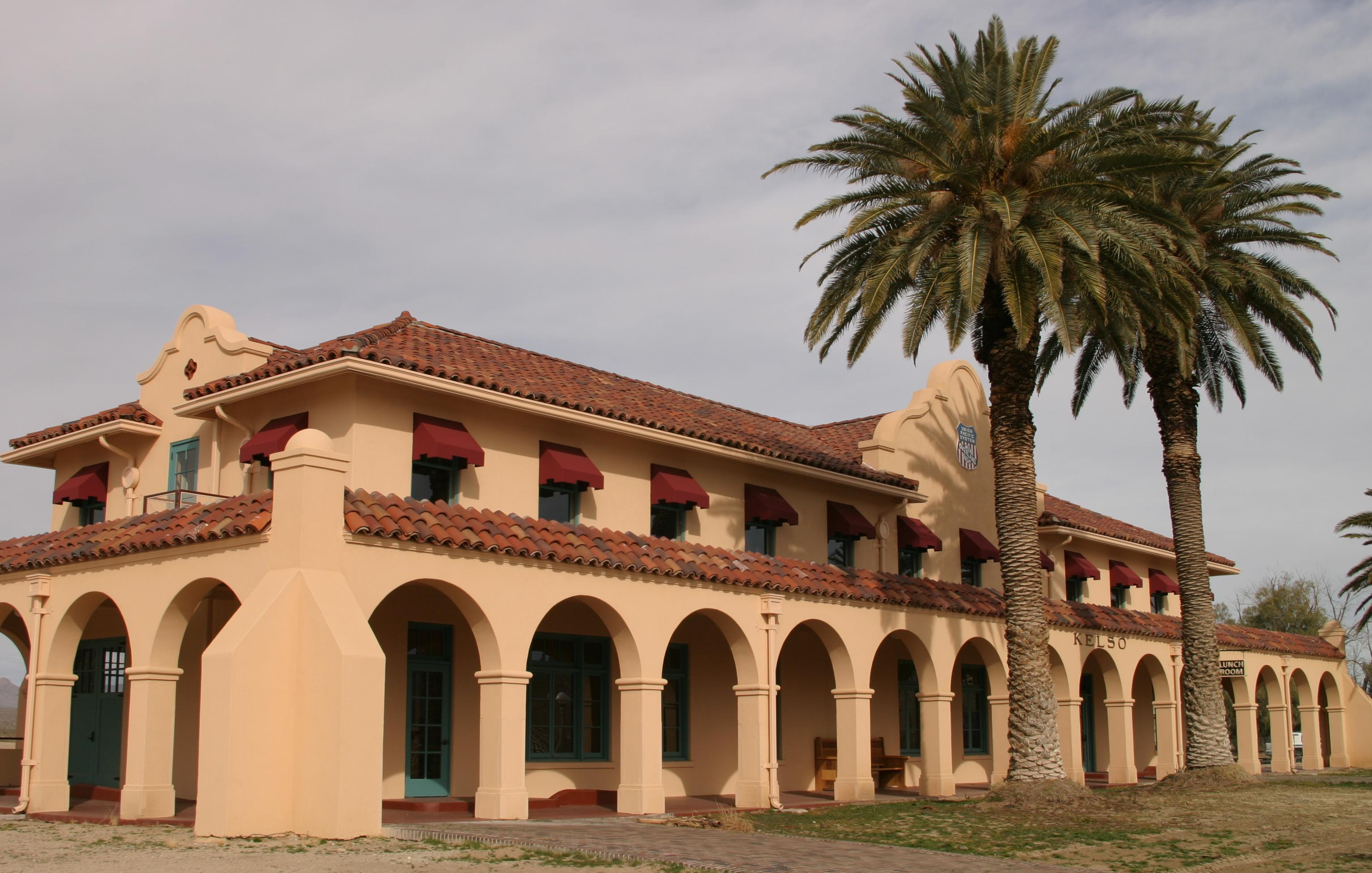 The Kelso Depot, Restaurant and Employees Hotel with original palm trees in Kelso, now the Visitor Center of the Mojave National Preserve, in the Mojave Desert park of Southern California. Taken 12/26/04 by Pretzelpaws with a Canon 10D camera. Cropped 1/9/05 using the Gimp.